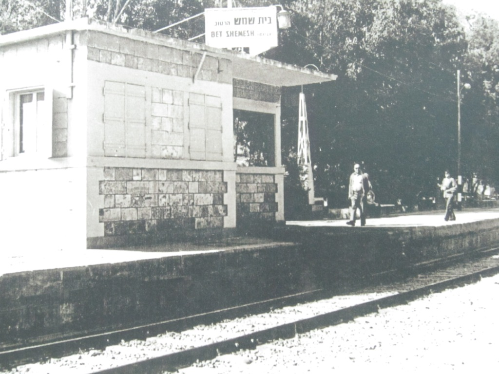 Landscape view, Transport in Israel